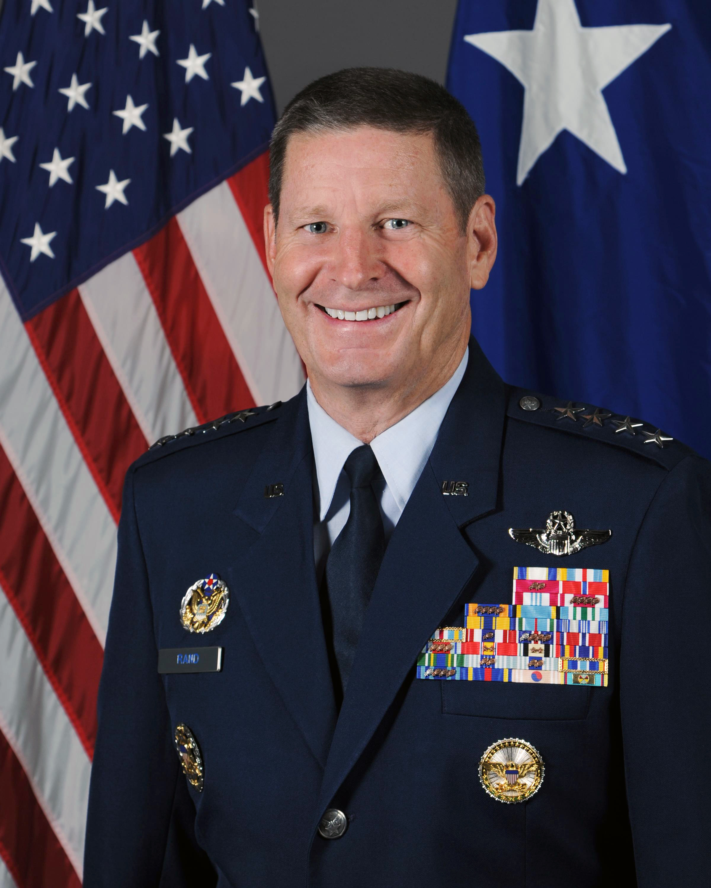 General Robin Rand, Commander AETC